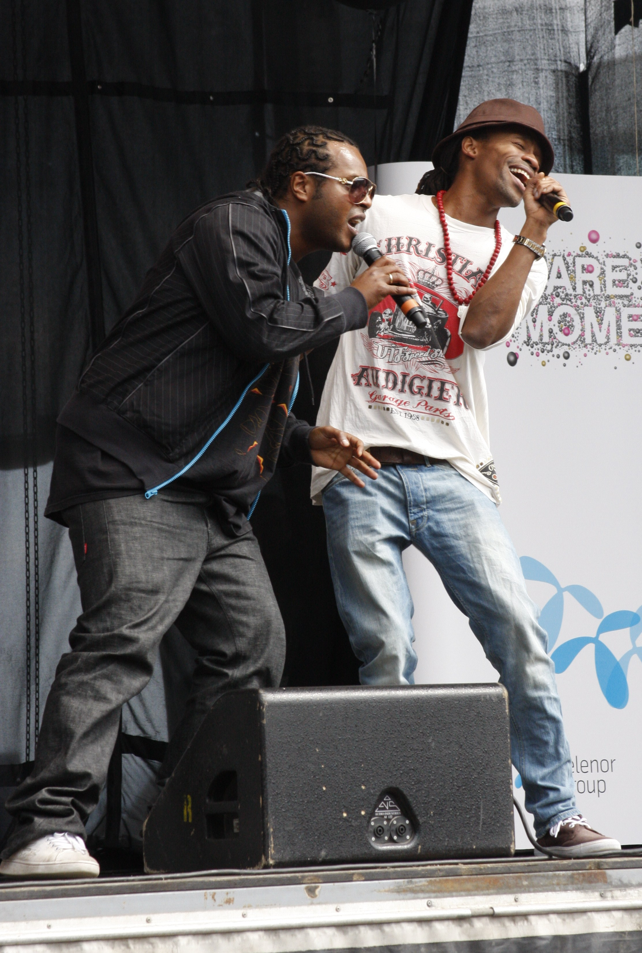 Madcon at stage at Fornebu, Norway. Telenor Culture Program.